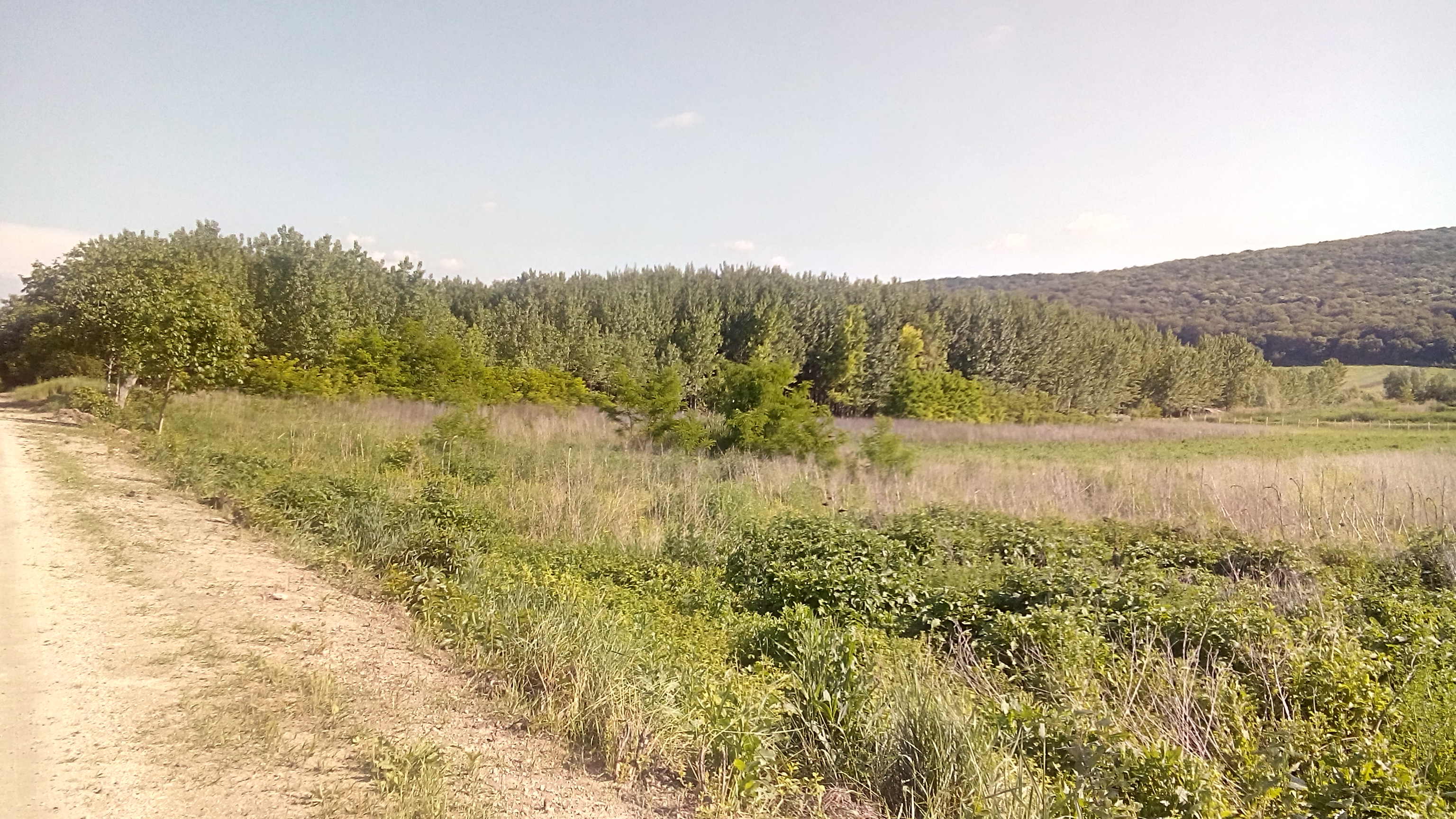 Poplar forest near Lozova commune, Strășeni district